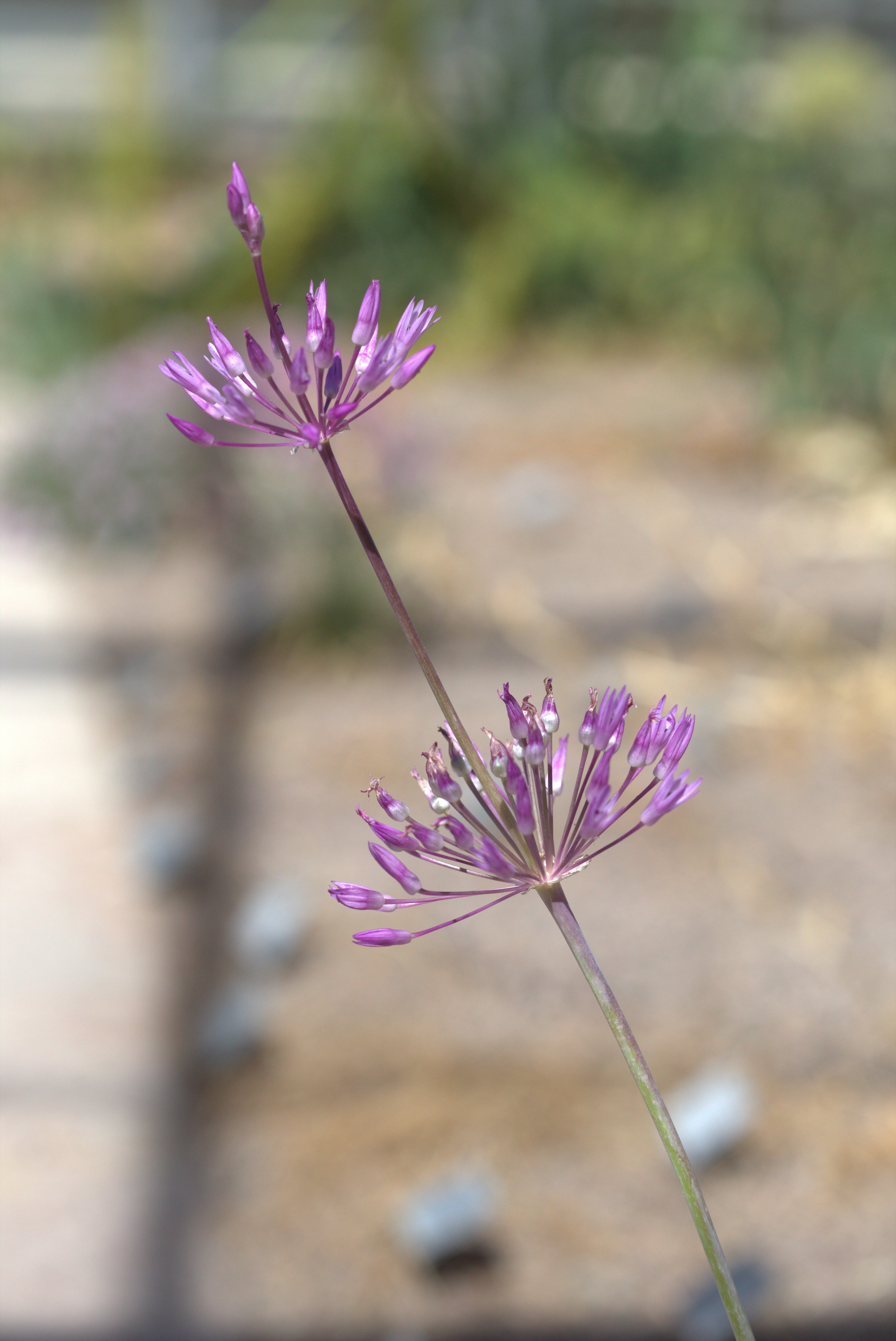 Allium regelii in Gothenburg Botanical Garden 2015. Plant id: 2005-130 s Z.